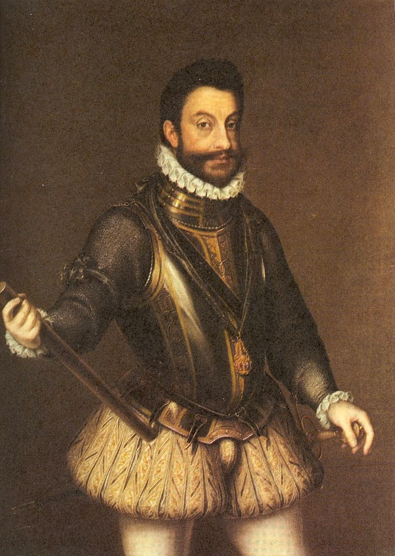 A portrait of Emmanuel Philibert of Savoy (1528-1580), at the El Escorial palace